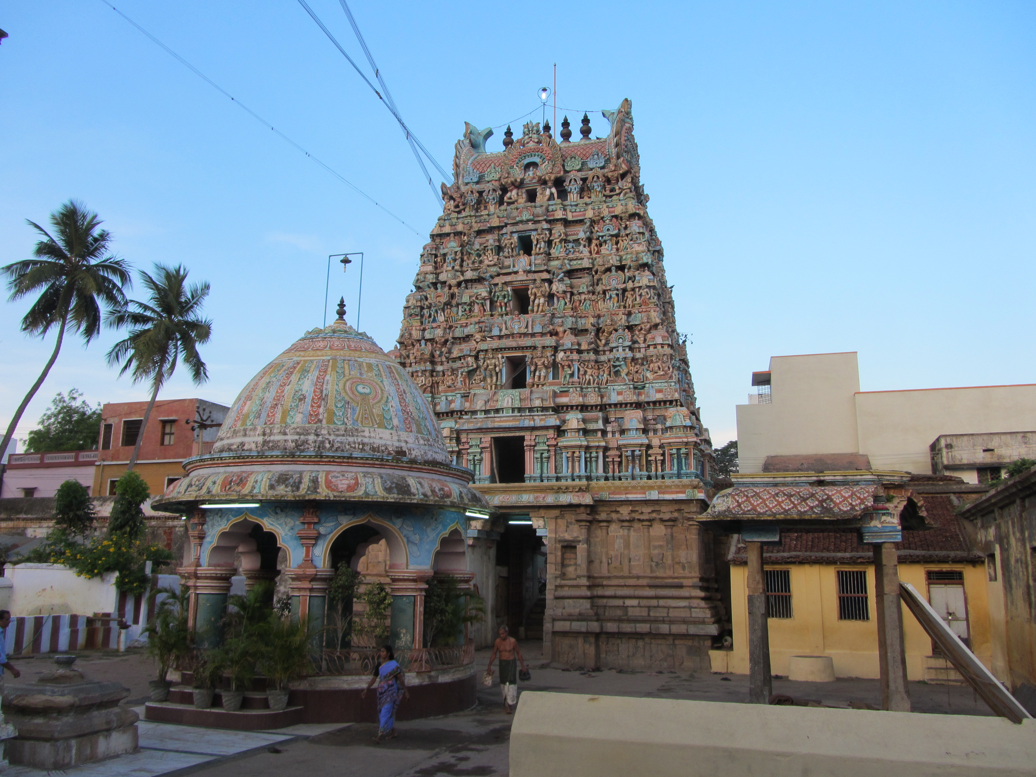 A Vishnu temple located in Kumbakonam town, about 2 km from the railway station.